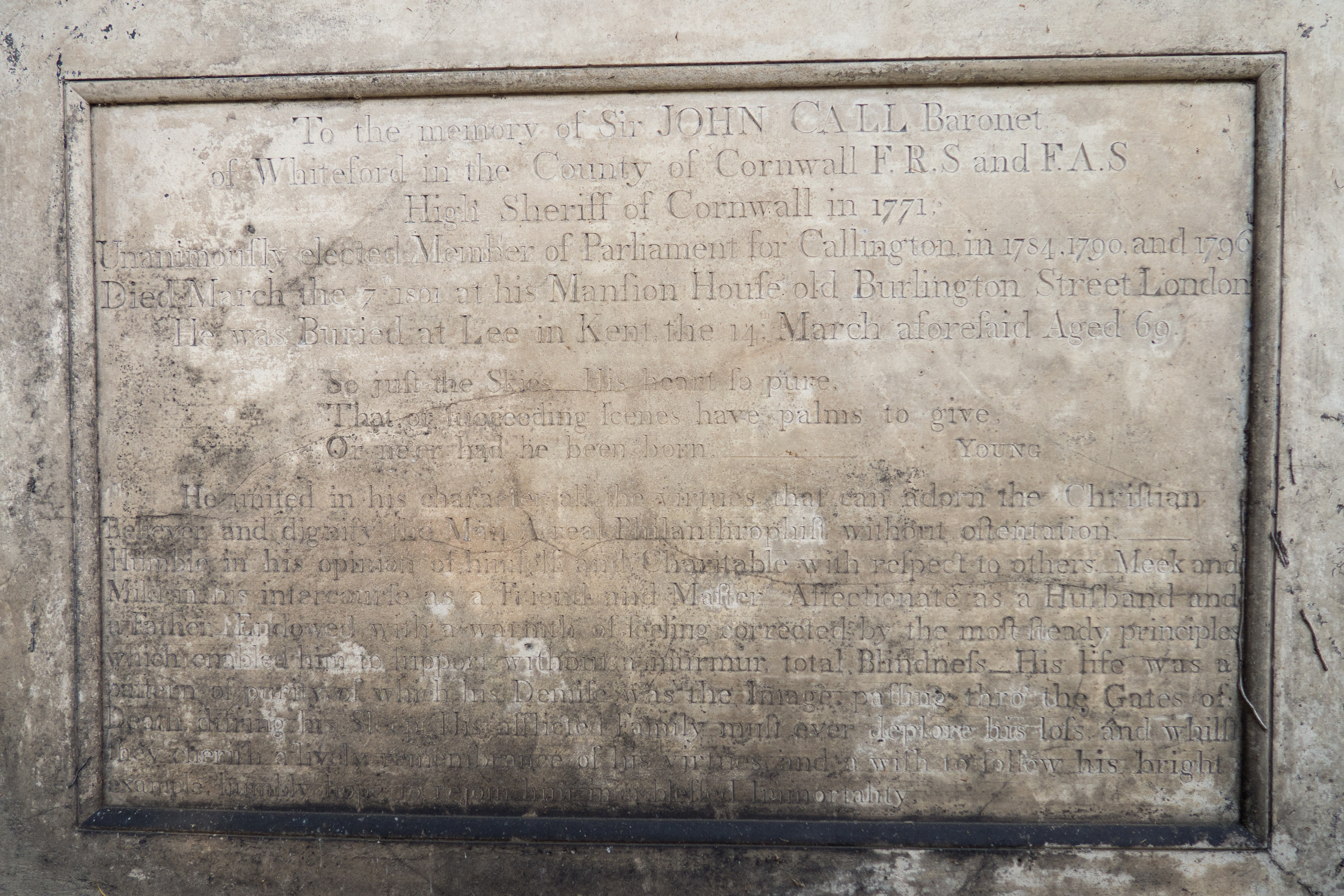 Monument Of Sir John Call Bart, Lee Old Churchyard Wikidata has entry Q17871256 with data related to this item.